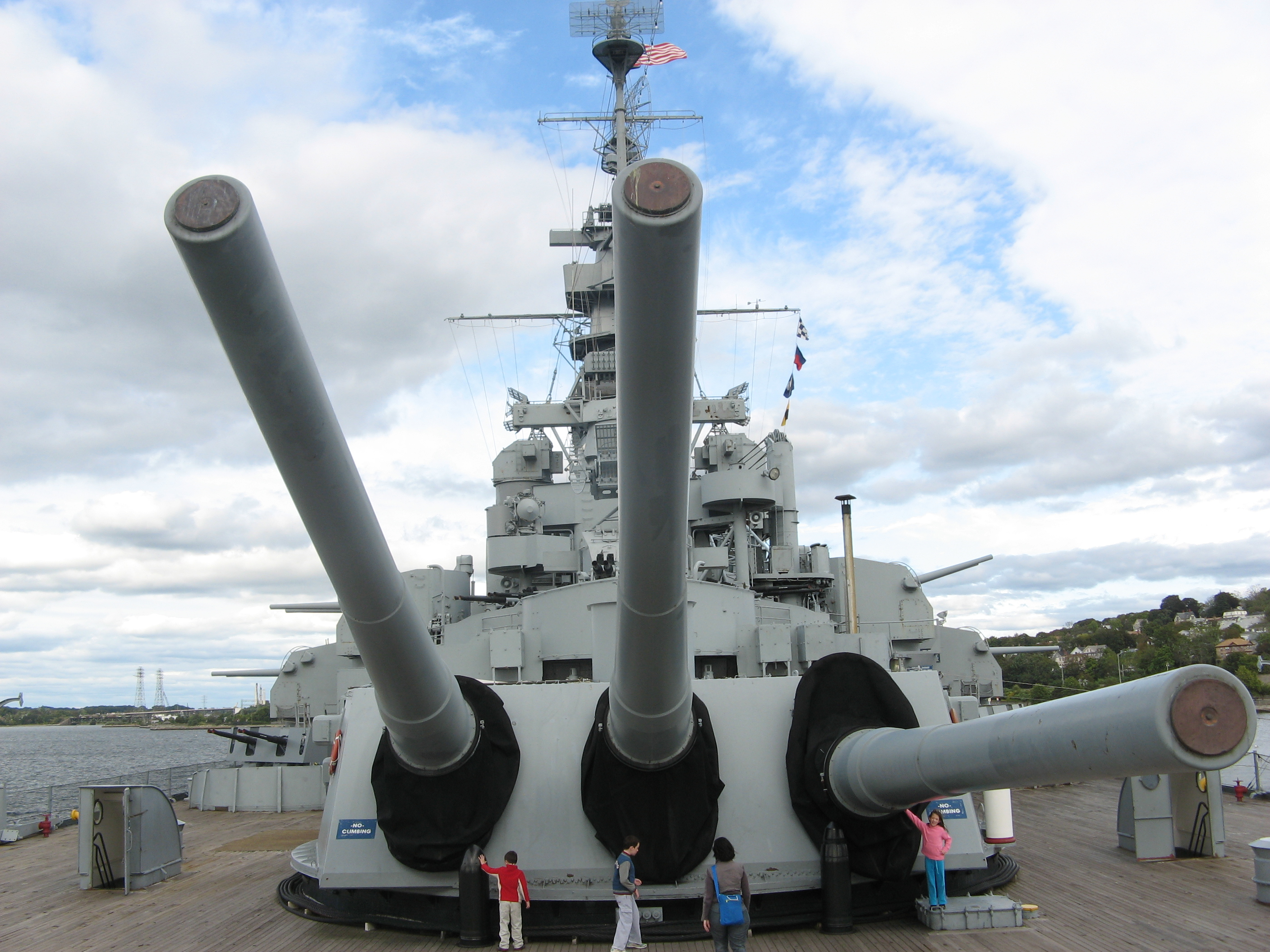 The upper part of an American battleship from WWII in a naval museum in Massachusetts